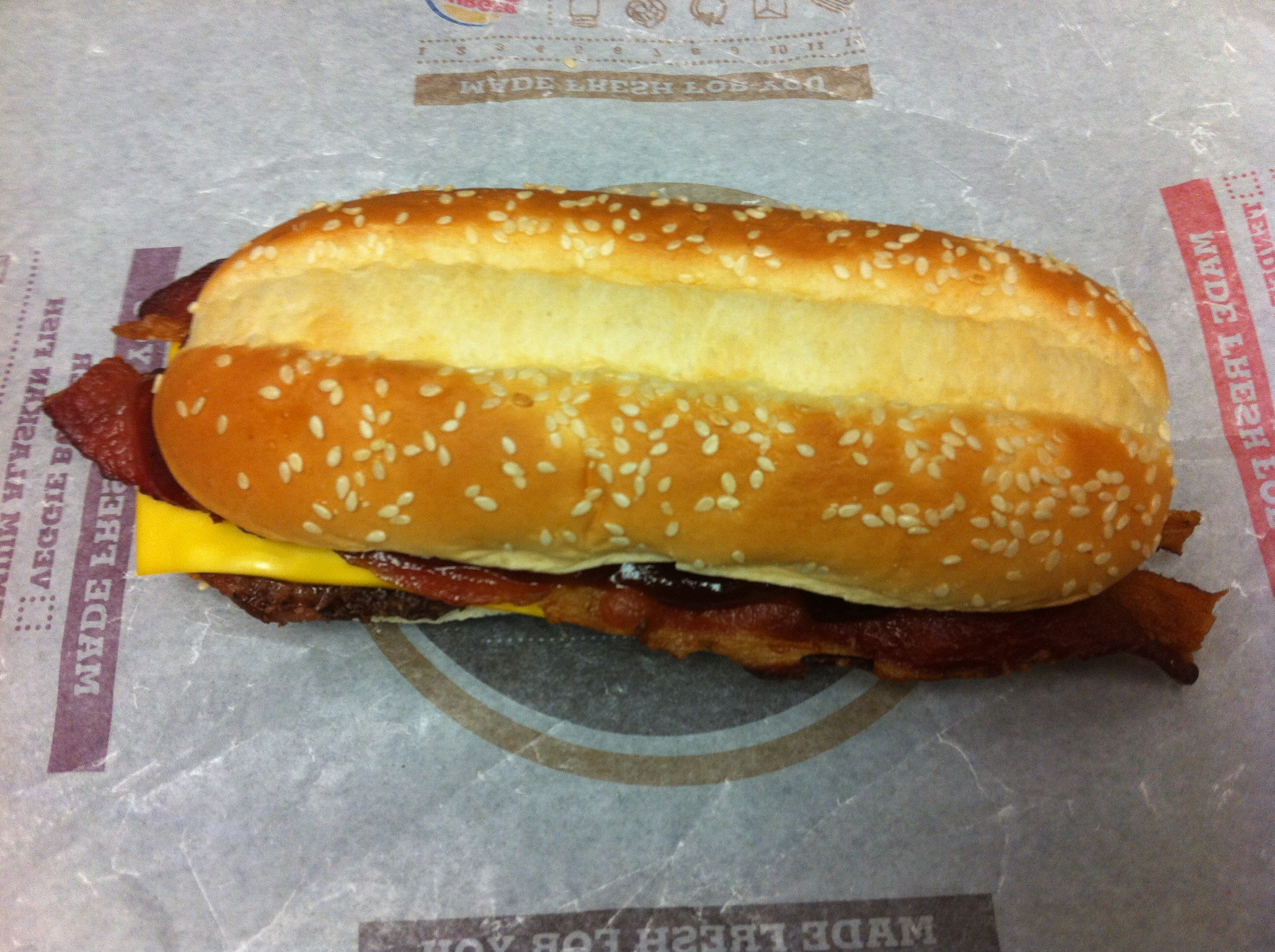 An example of a Burger King Bull's Eye BBQ Burger